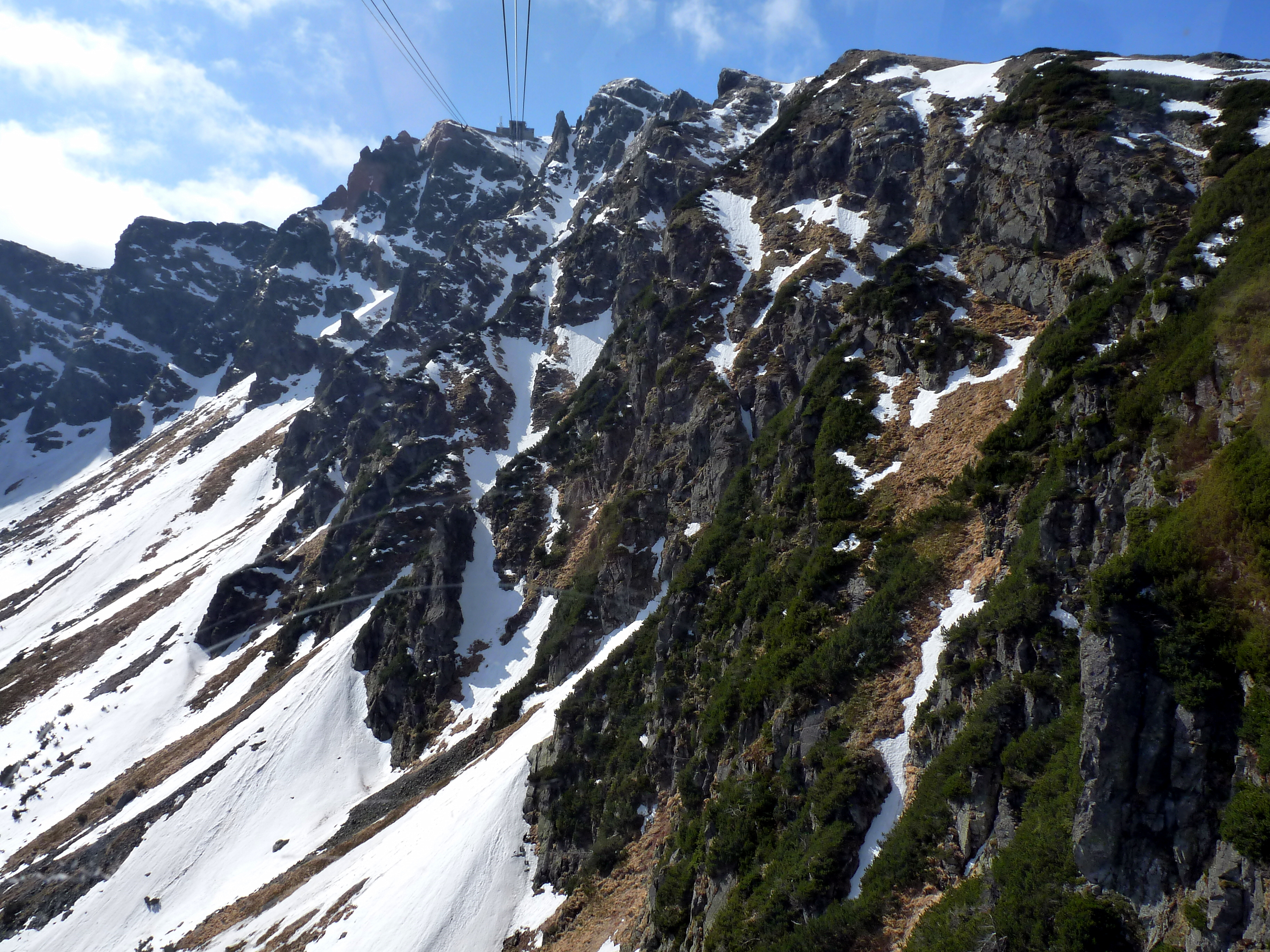 Kasprowy Wierch